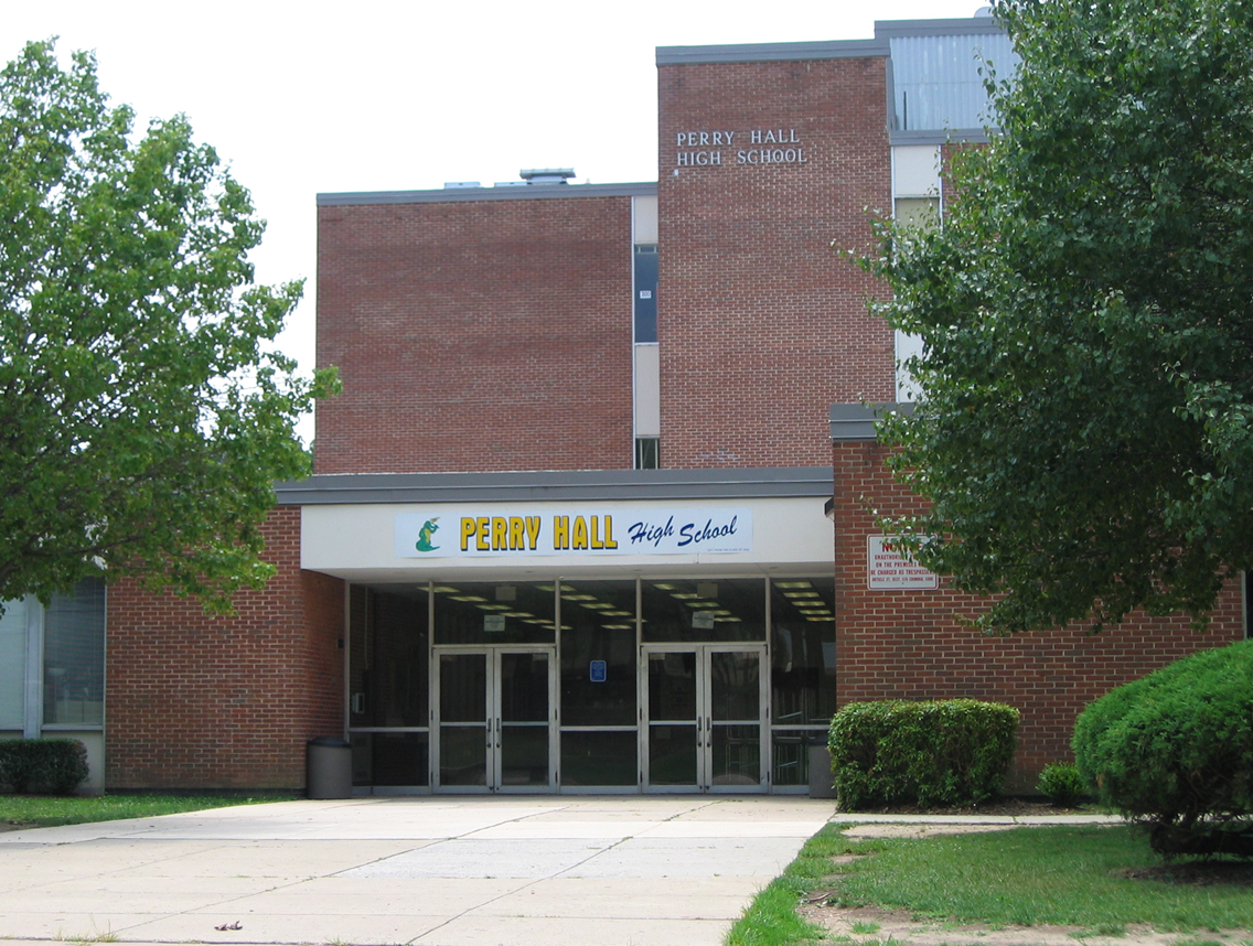 A view of the main entrance to Perry Hall High School.